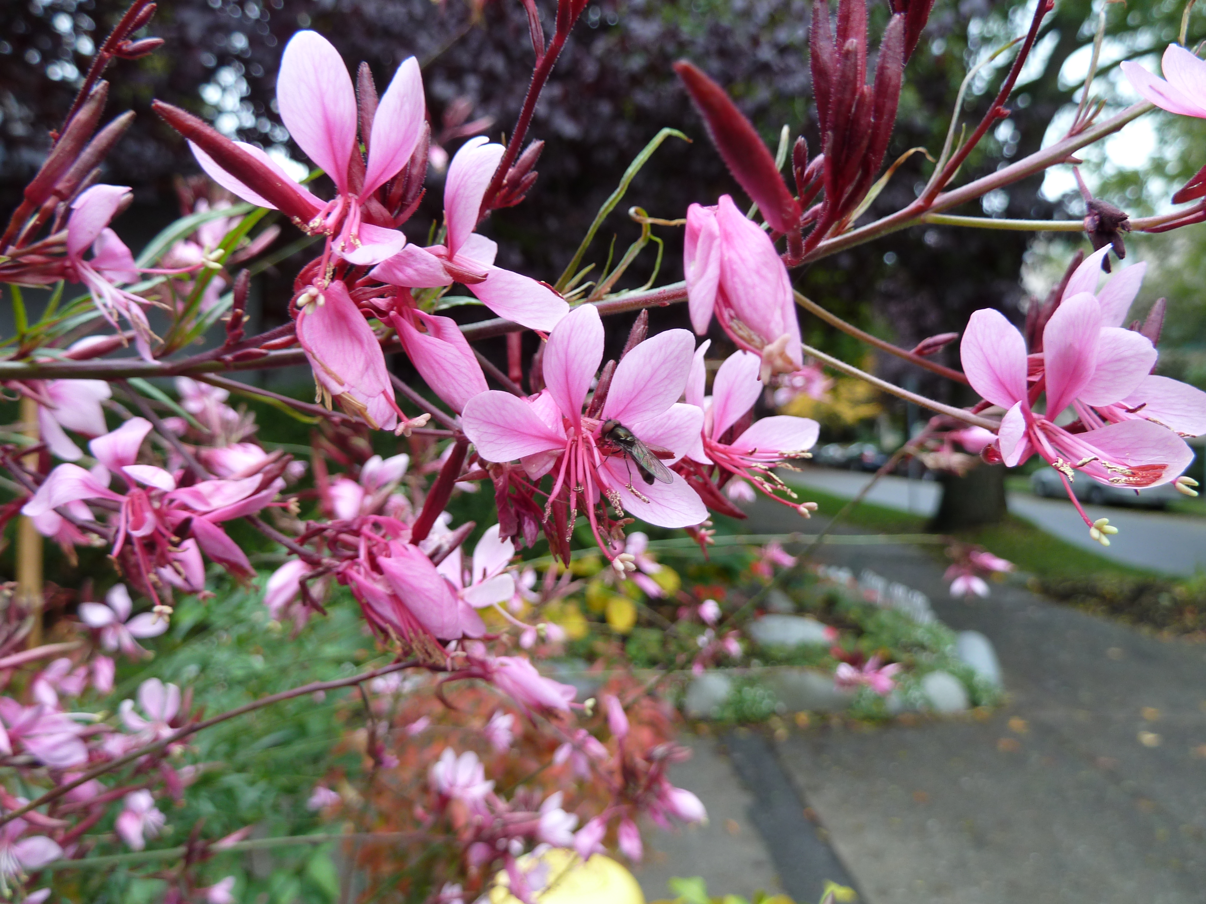 Gaura lindheimeri at Comox and Jervis, probably a "Green Streets" planting